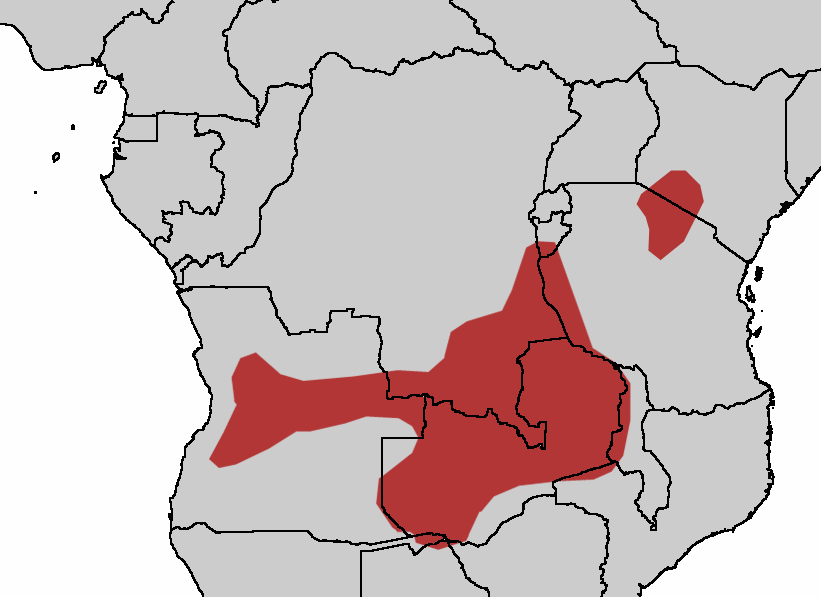 The Schalow's Turaco's Distribution.